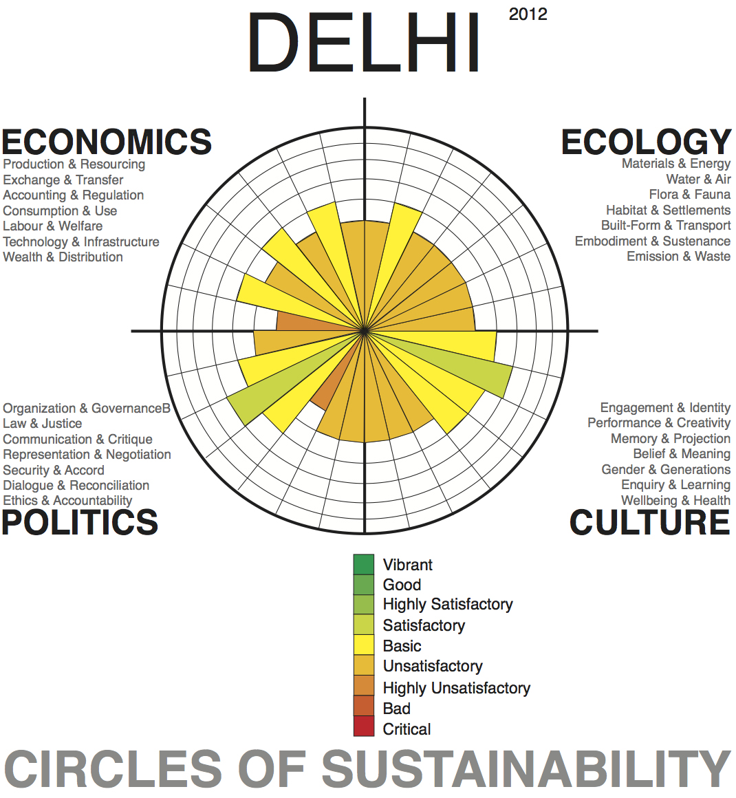 Urban sustainability analysis of the greater urban area of the city using the 'Circles of Sustainability' method of the UN Global Compact Cities Programme